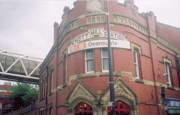 A picture of the frontage of Deansgate railway station, Manchester, June 2007.